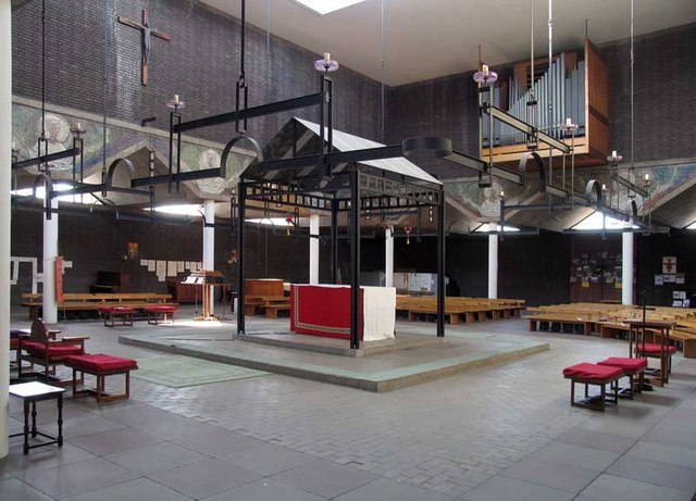 St Paul's Church, Burdett Road, London E3 Built 1960, architects Maquire & Murray.